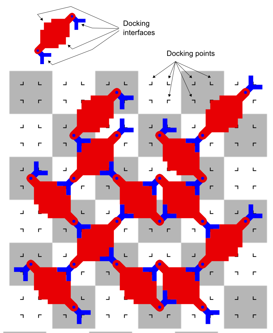 An assembly of several units of the Micro Unit system shown with the corresponding lattice and network of docking points